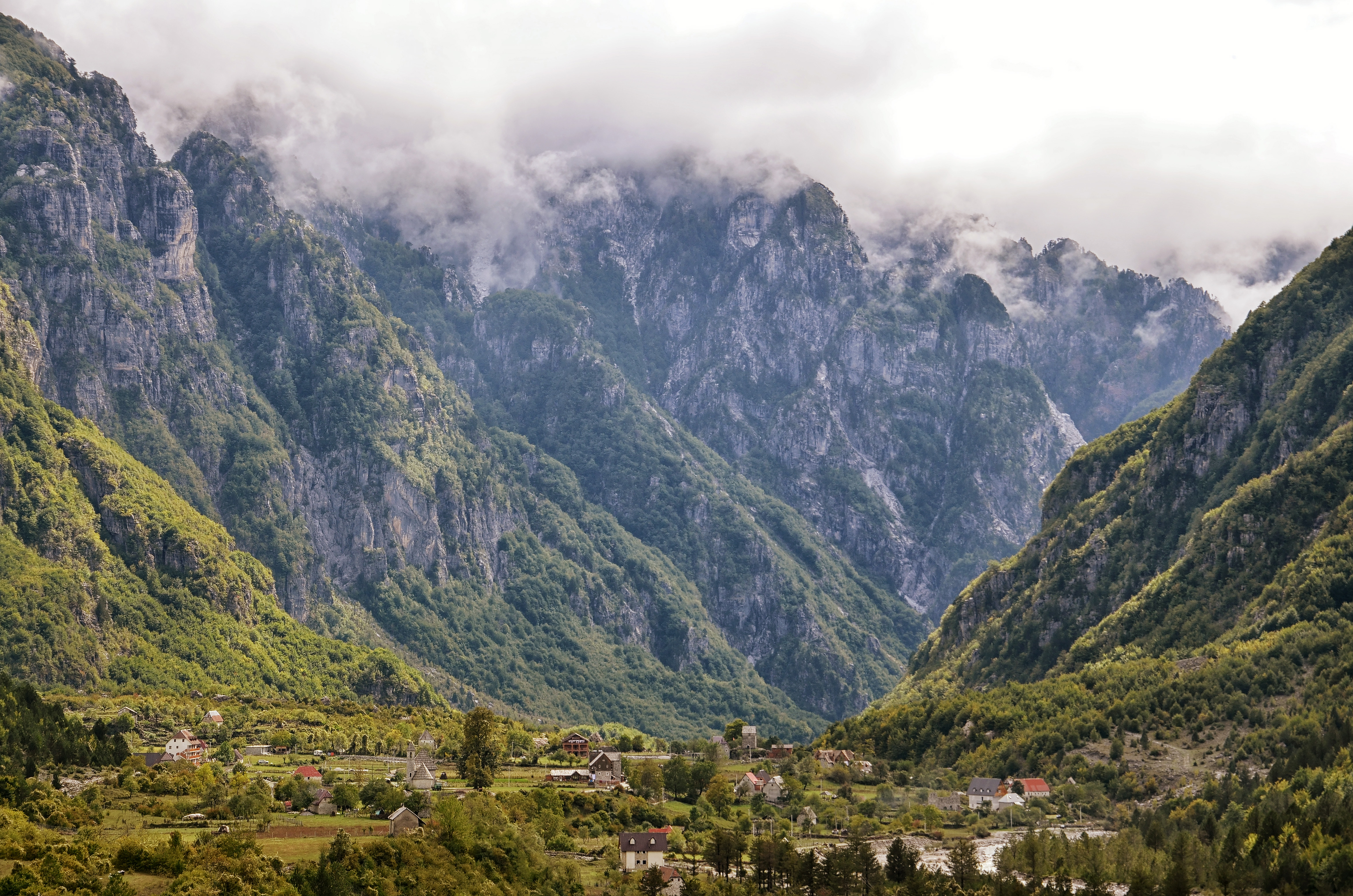 The center of Theth, Fusha e Thethit viewed from the north